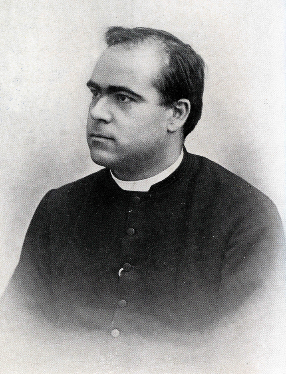 A portrait of the French Roman Catholic priest and mycologist Hubert Bourdot.